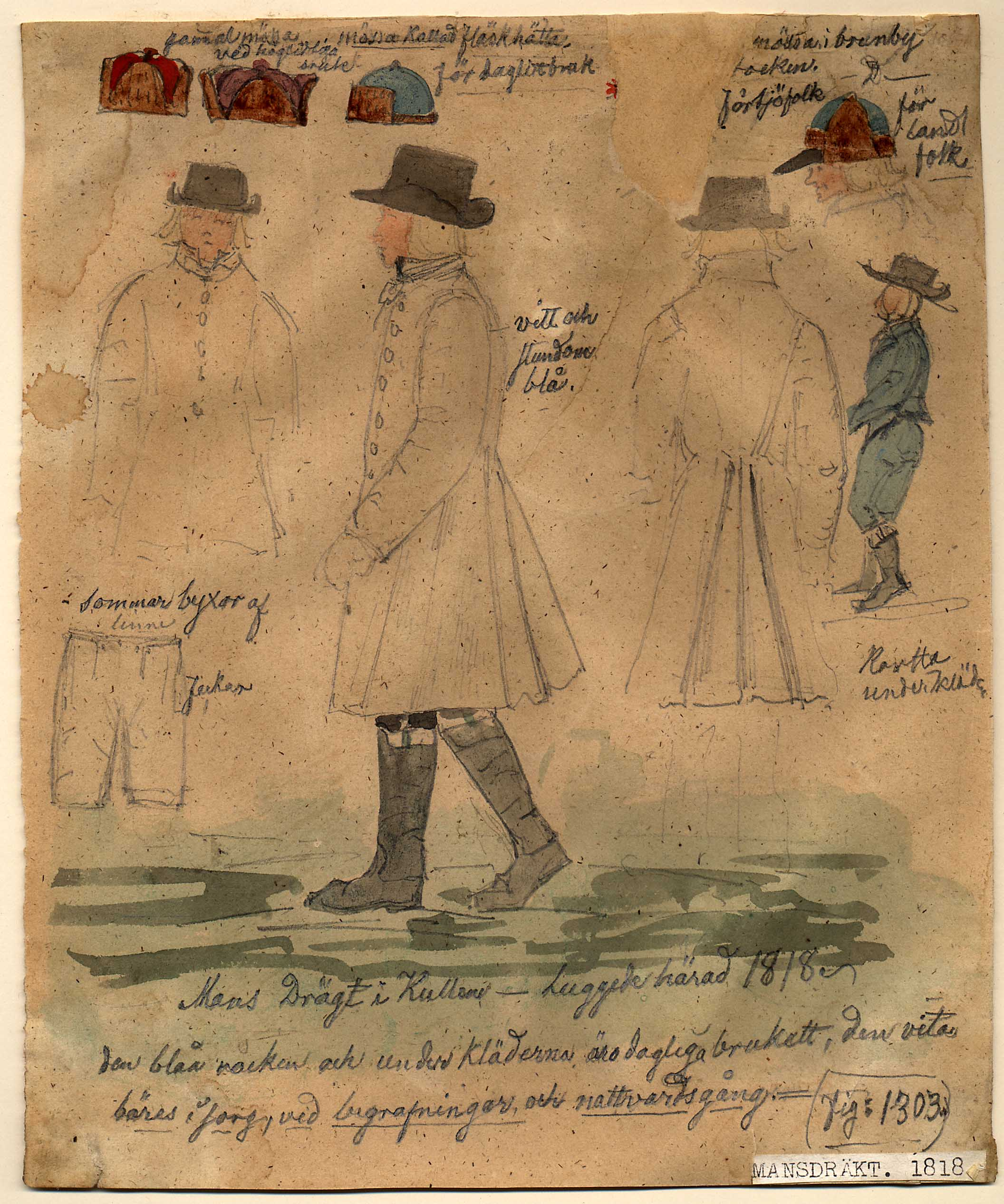 Drawn by Nils Månsson Mandelgren himself in the 19th century.